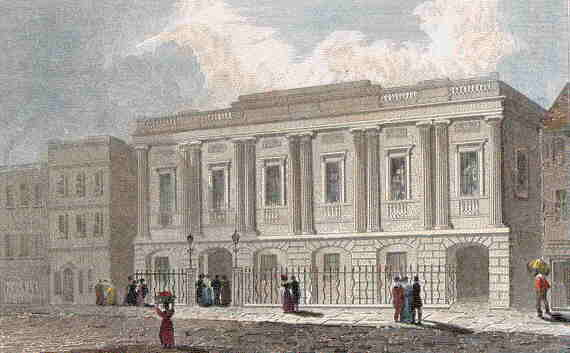 The Public Offices in Moor Street, Birmingham, illustrated by William Smith, FRSA in 1830 for his New & Compendious History of the County of Warwick. Source